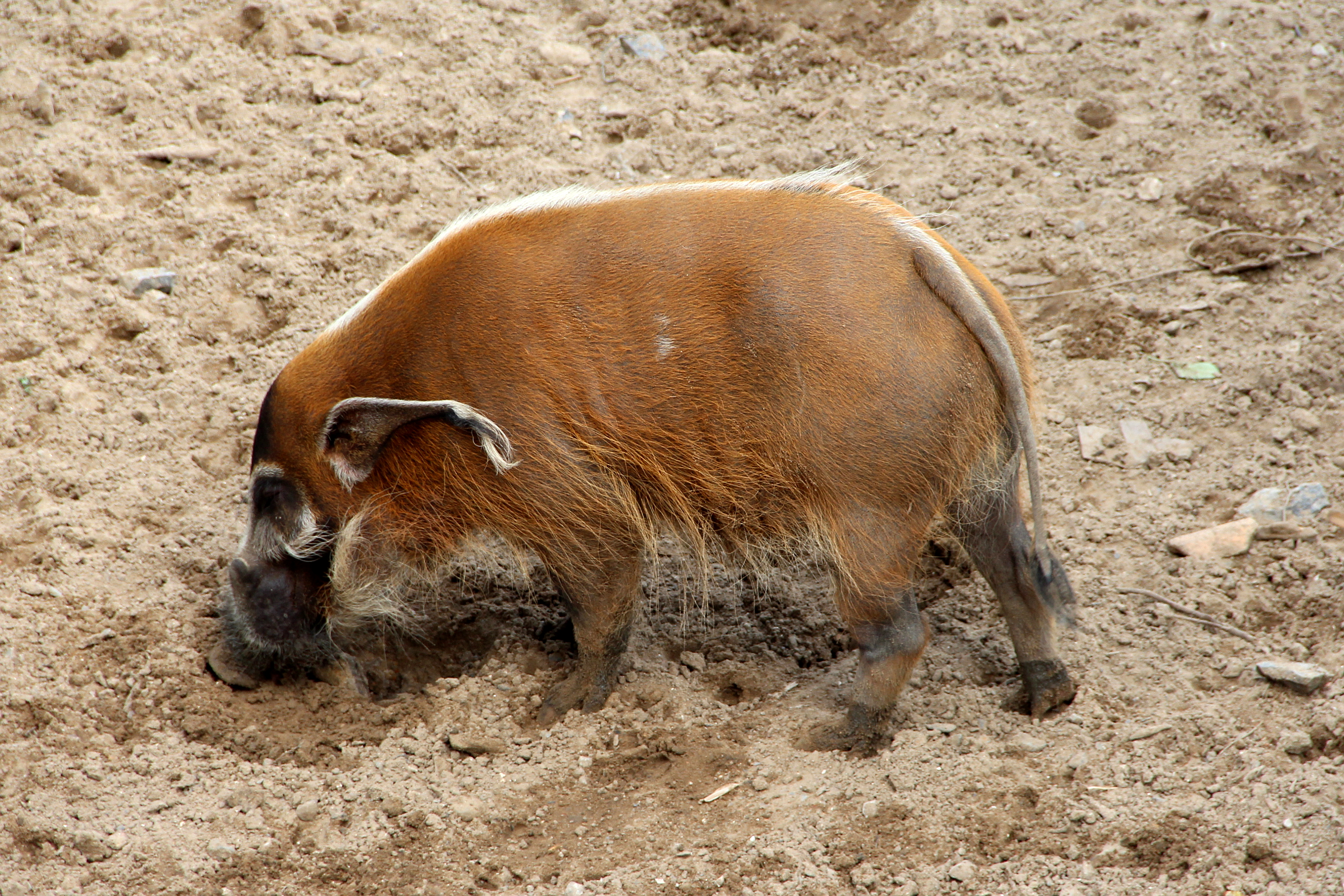 Red river hog